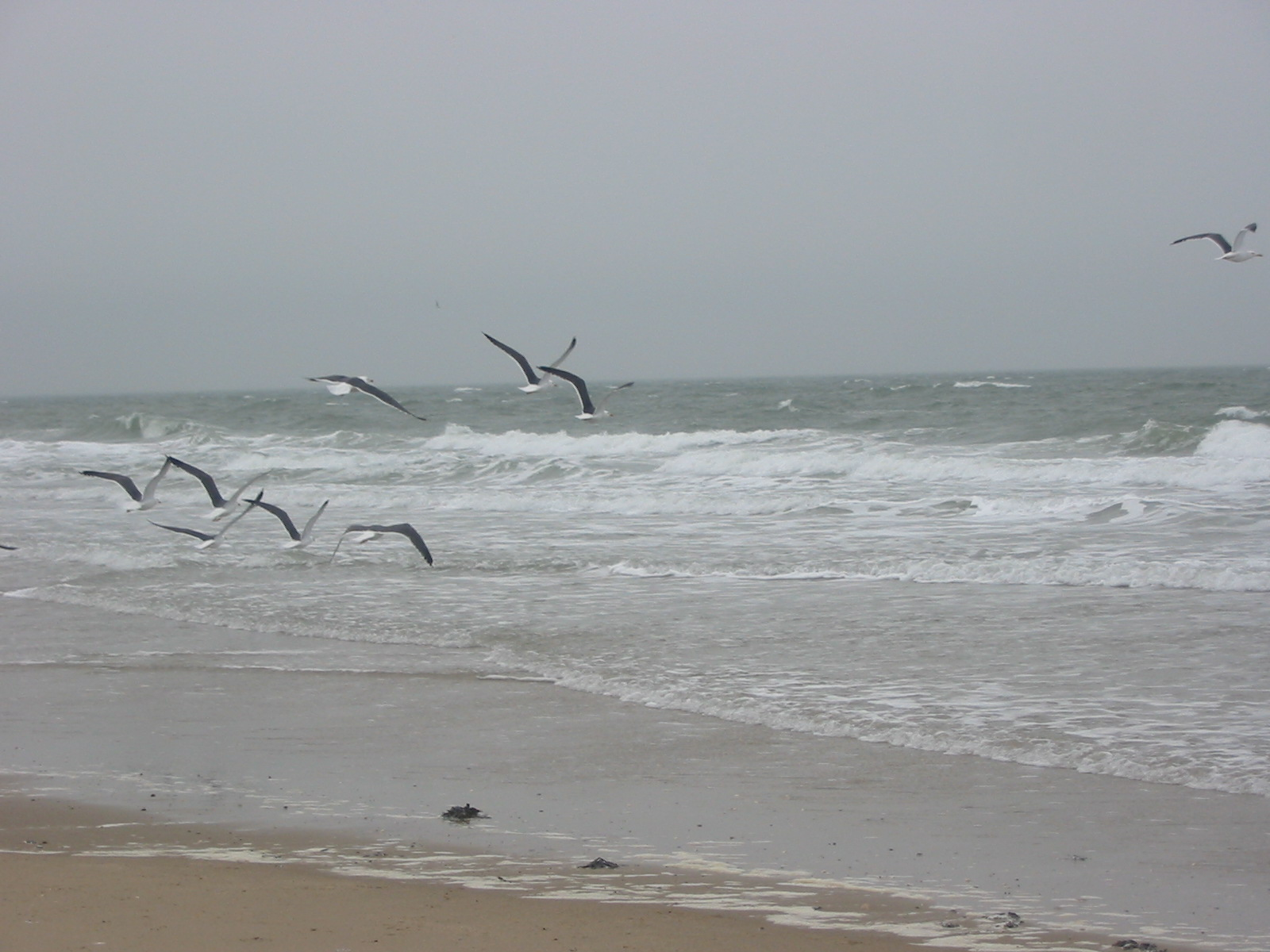 Larus fuscus, taken at west coast of Schouwen-Duiveland on 2006-03-25